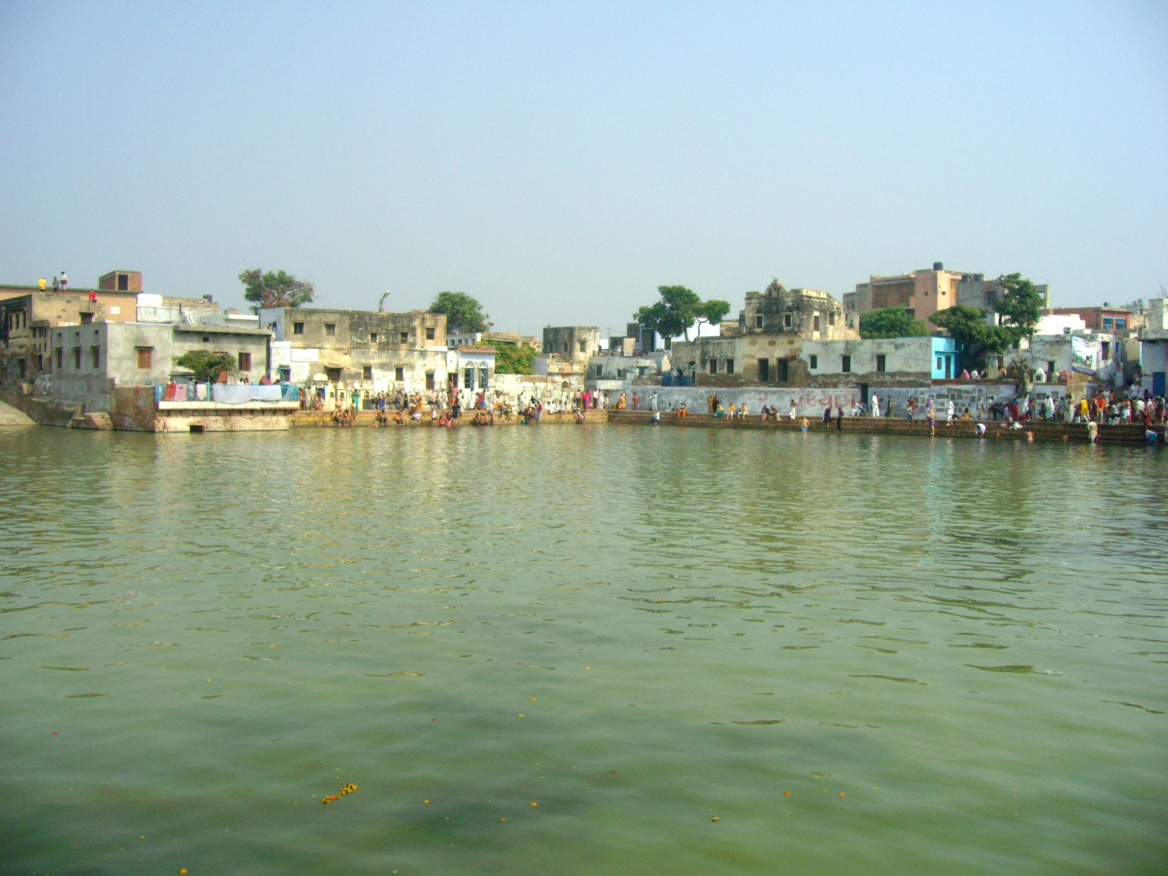 Sacred lake of Radha-kund in Uttar Pradesh, India